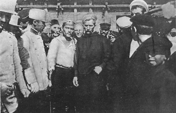 Mutiny on board Russian battleship Knyaz Potemkin of June 1905. Leader of mutinees Afanasiy Matushenko (in white shirt)